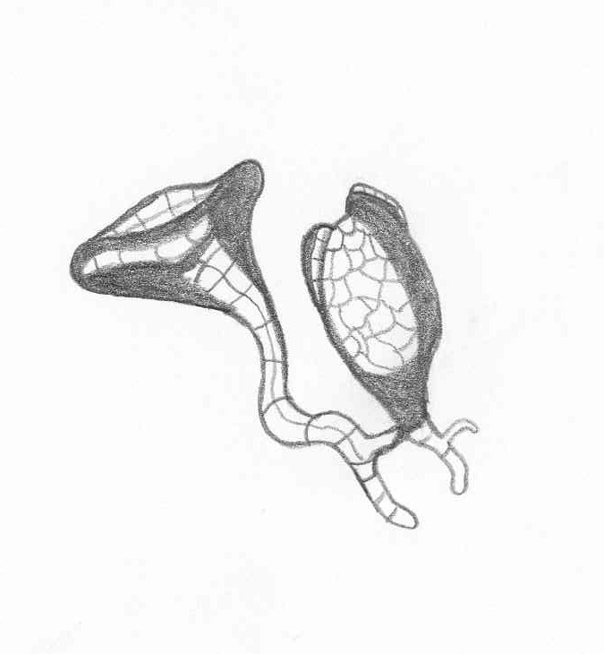 On this image is prothallium with tubular cirri of a moss Diphyscium foliosum.